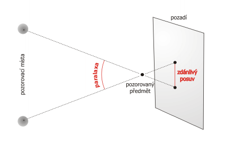 Parallax